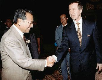 Prime Minister Dato' Seri Dr. Mahathir bin Mohamad greets U.S. Secretary of Defense William Cohen in Kuala Lumpur, Malaysia, the secretary's first stop.